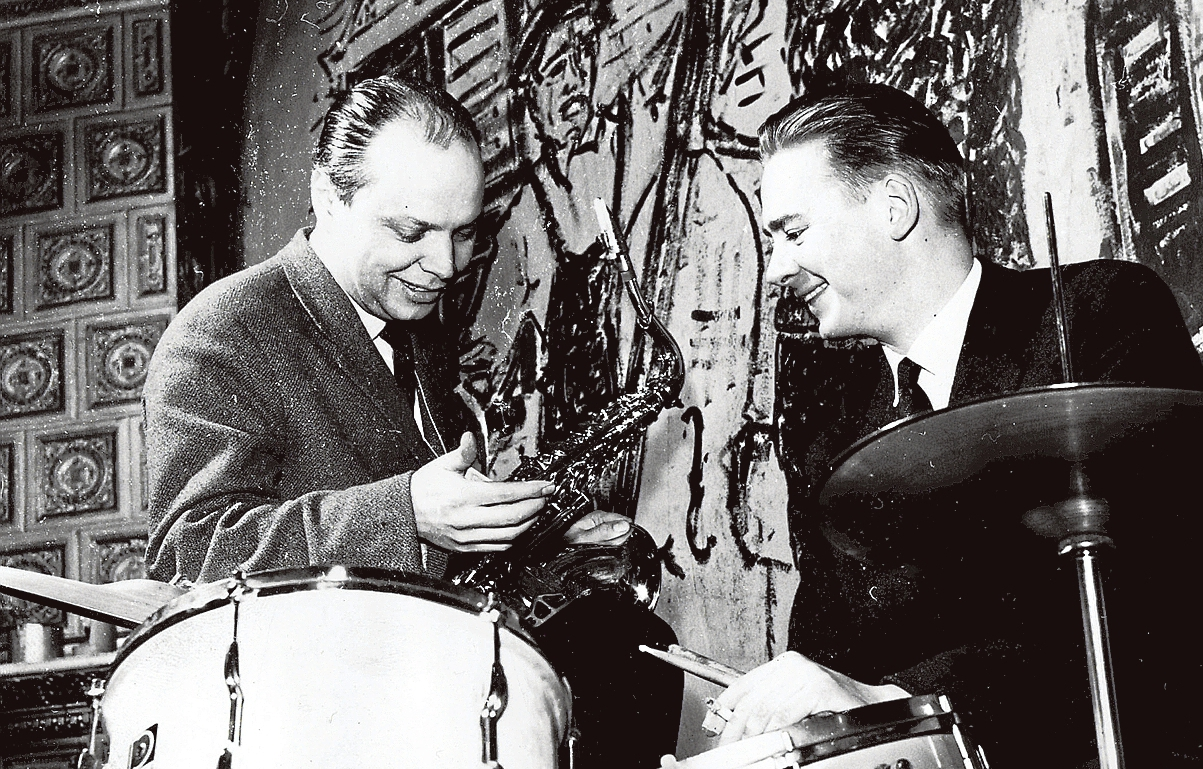 Photograph of the Finnish Jazz musicians Seppo Rannikko (1928–2000) and Pekka Mäyrämäki (1929–2015) at Old House Jazz Club.